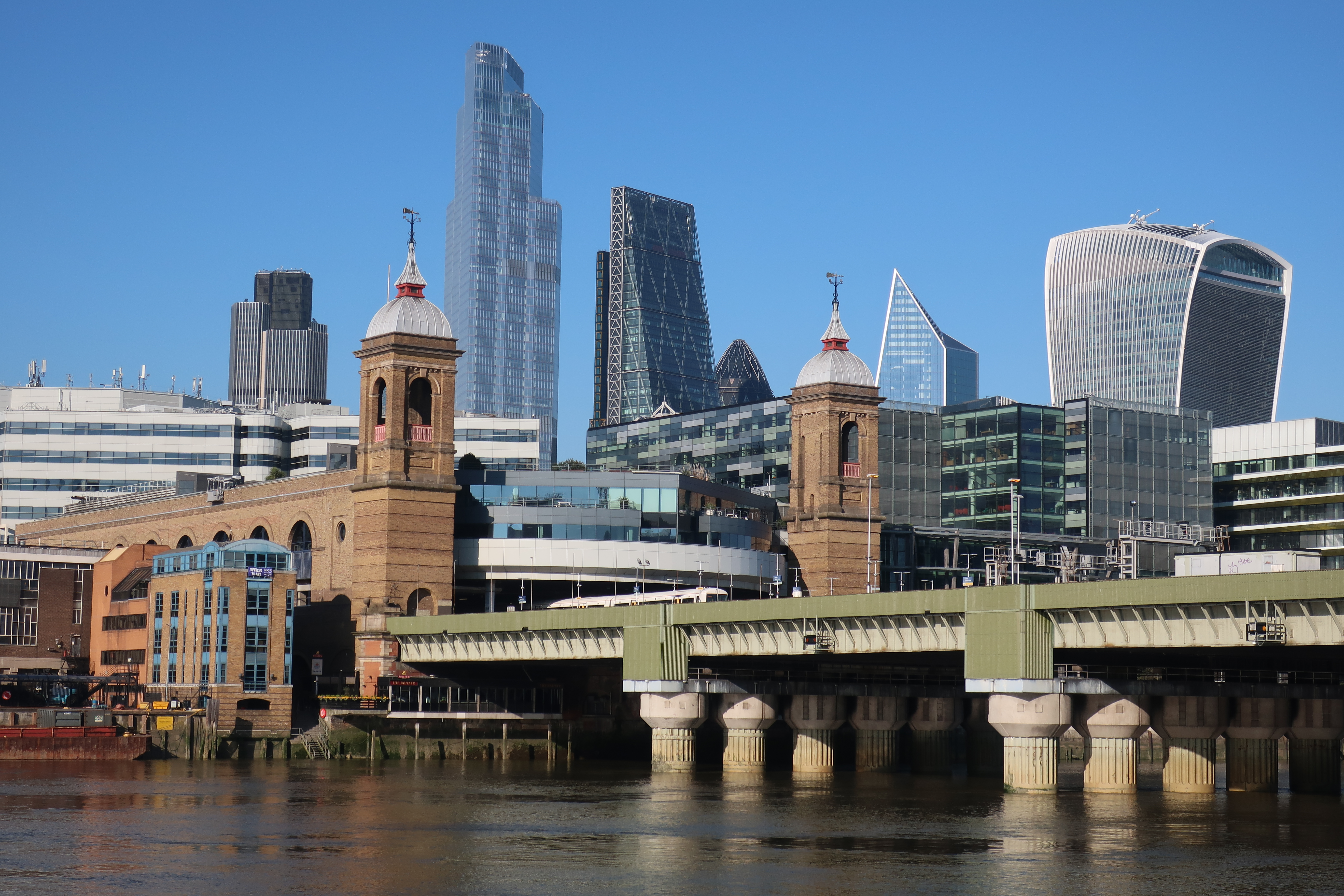 Cannon Street station and railway bridge, London, viewed from the south bank of the Thames